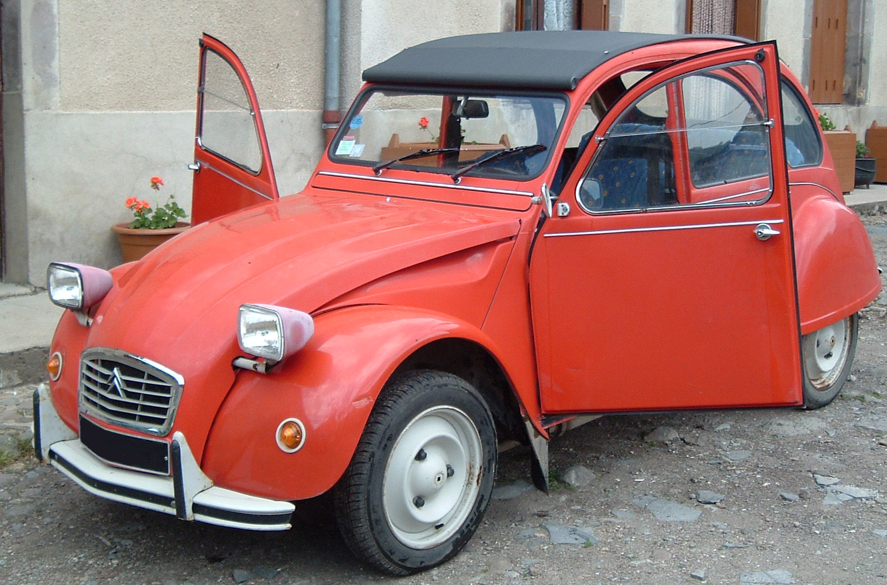 Citroën 2CV